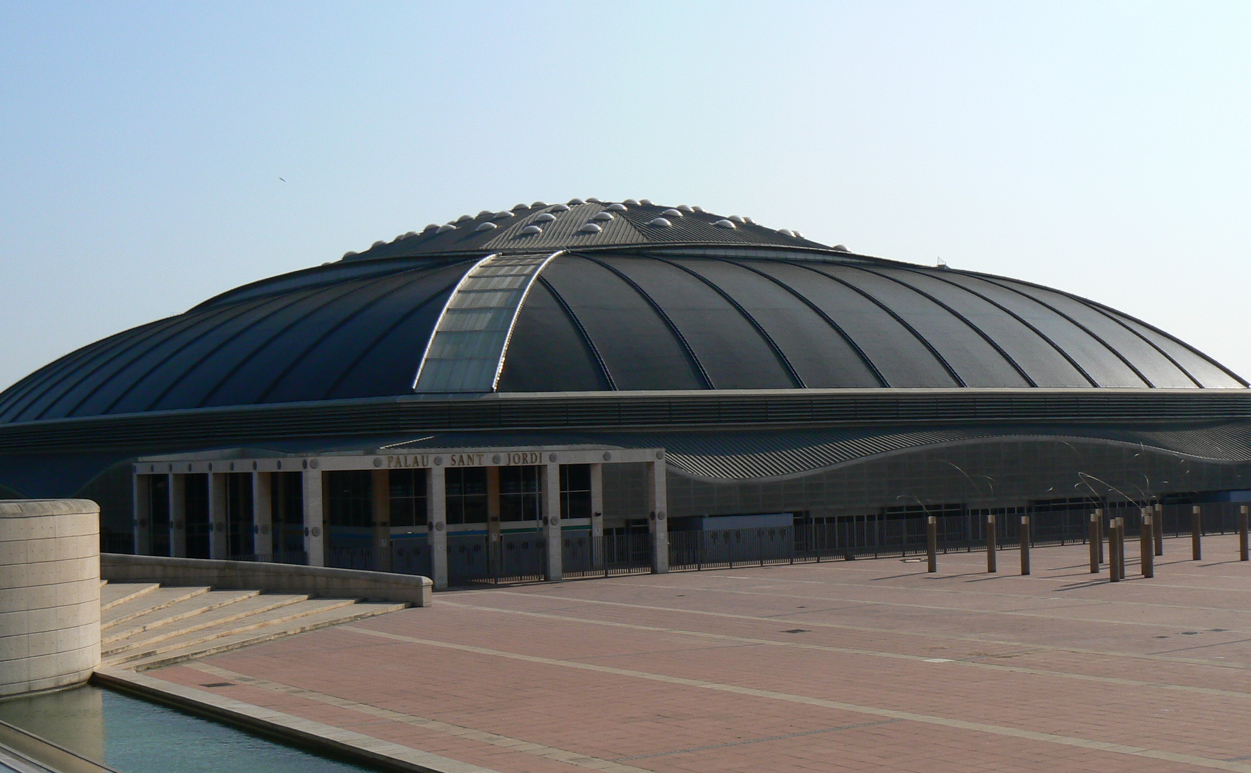 Olympic Stadium of Montjuïc, Barcelona.